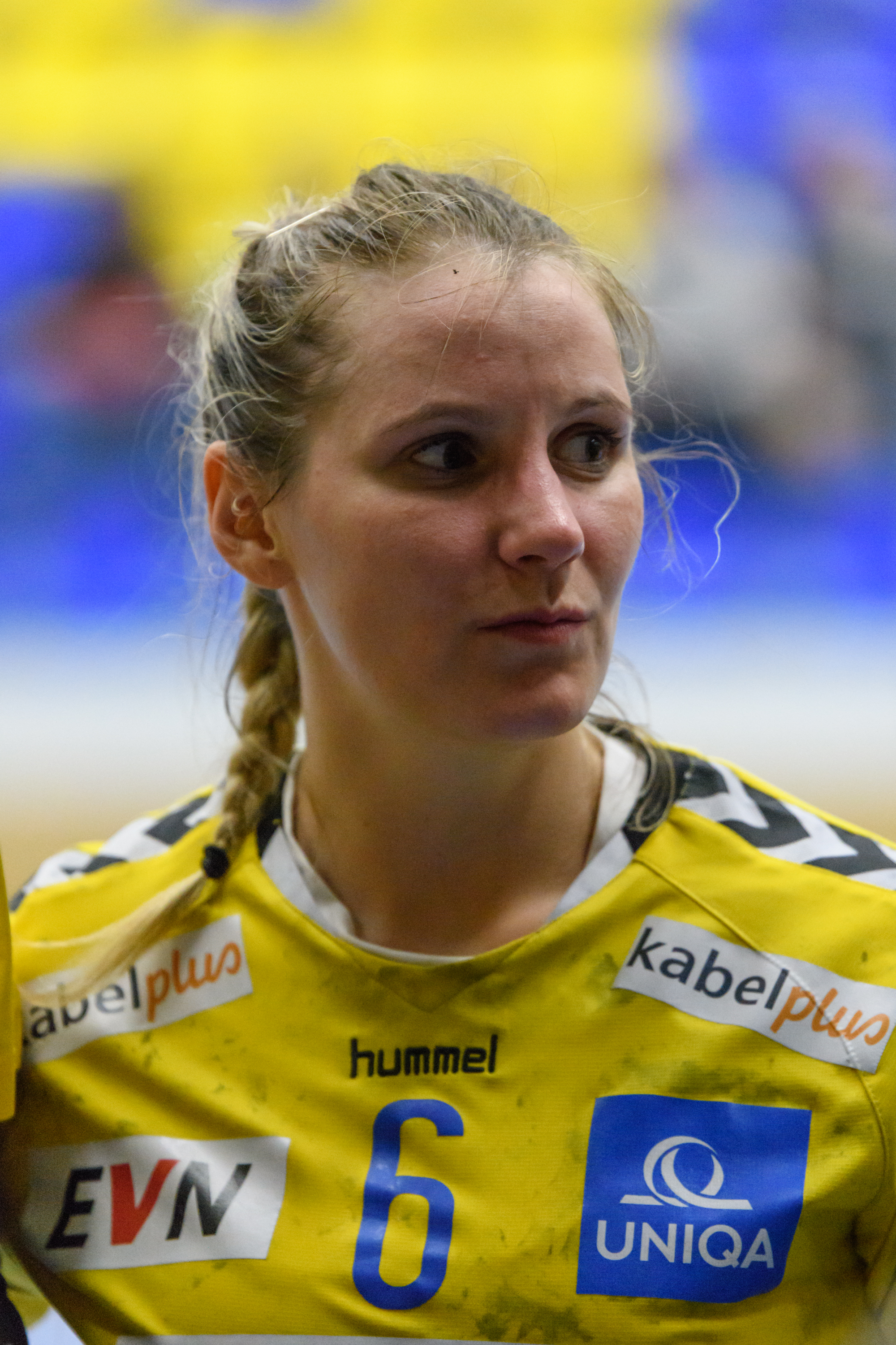 Women Handball Austria, Hypo NÖ vs. UHC Müllner Bau Stockerau 2018/04/07. Picture shows Mirela Dedic (Hypo NÖ.